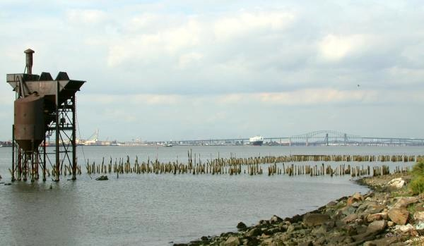 Newark Bay, seen from the waterfront of Bayonne. A decayed pier remnant is visible in the foreground. The Newark Bay Bridge is visiblein the background. © 2004 Matthew Trump